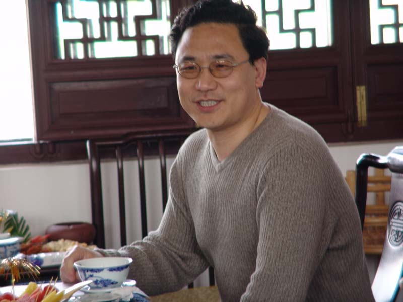 Kefeng Liu